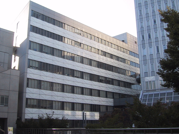 Toyo University Hakusan Campus No.3 Hall(東洋大学白山キャンパス3号館（事務棟）)